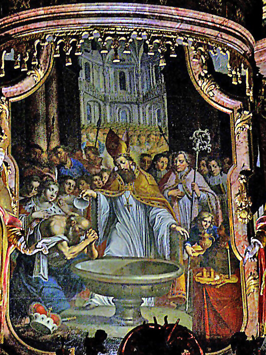 High altarpiece Parish Church of Trofaiach